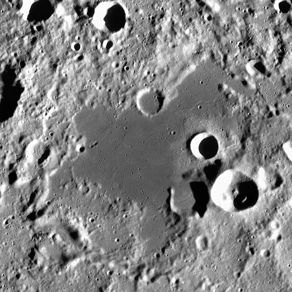 Lacus Spei on the Moon. Mosaic of photos by Lunar Reconnaissance Orbiter, made with Wide Angle Camera. Size of the image is 120×120 km, north is up.